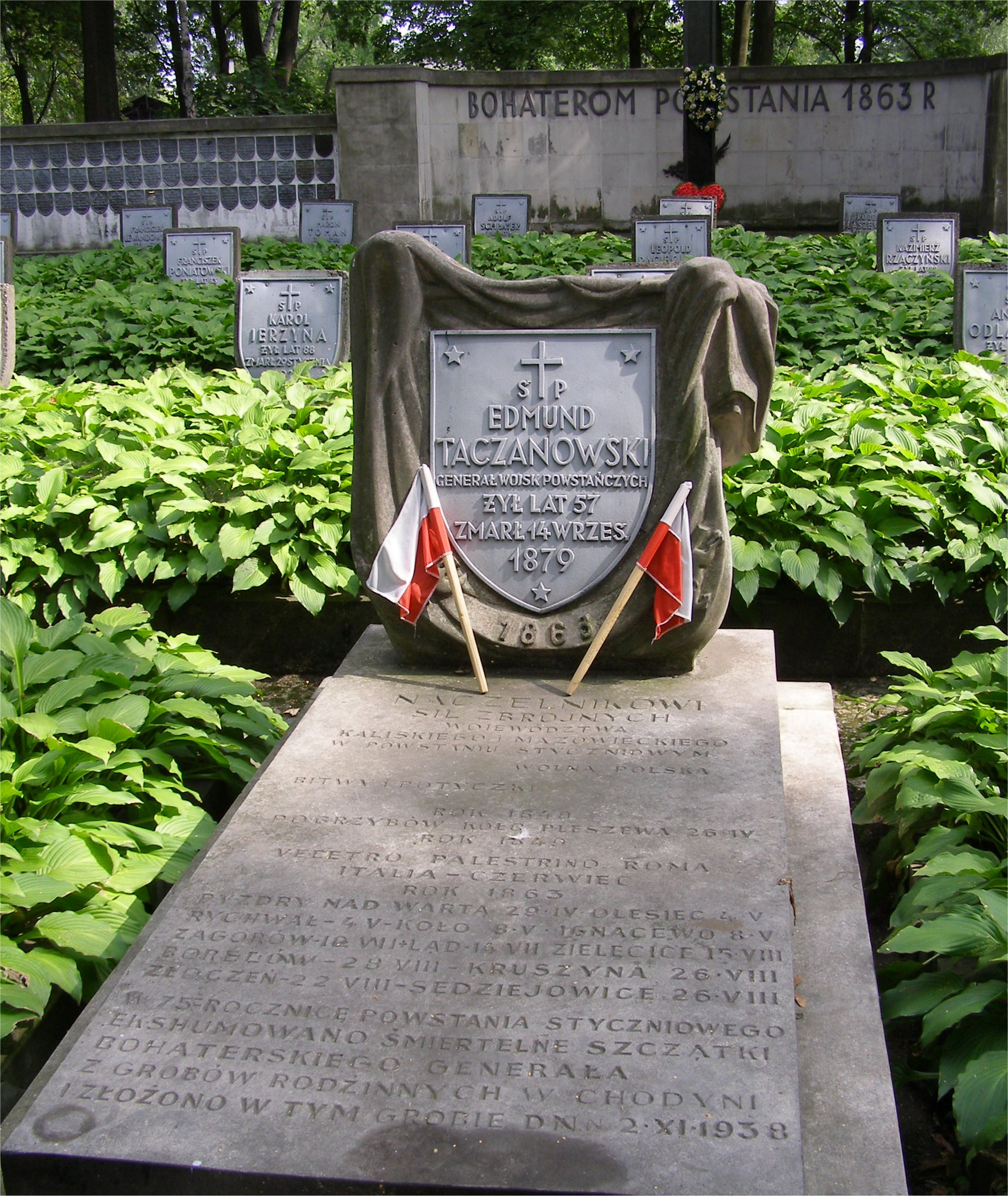 Edmund Taczanowski's grave on the Powązki wojskowe graveyard in Warshaw, Poland